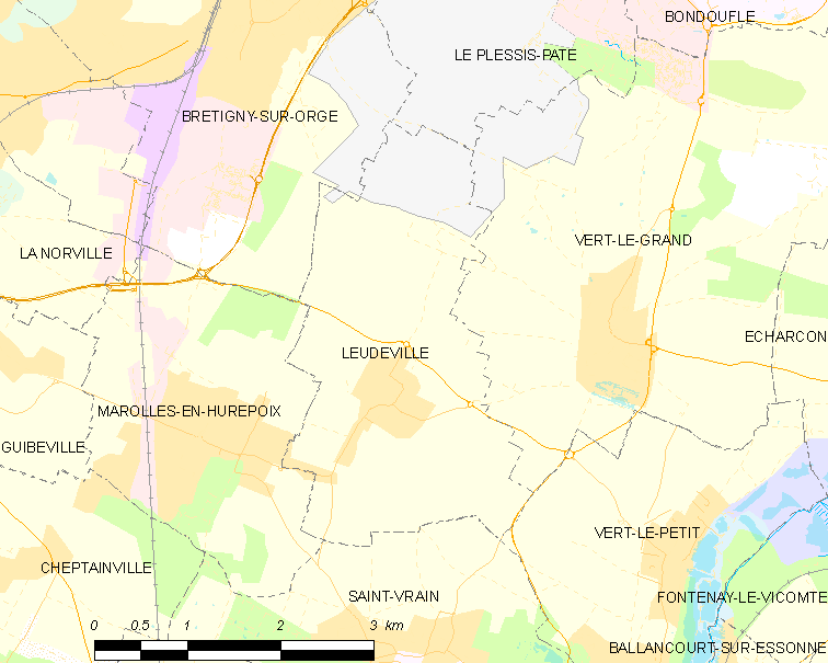 Map of French municipality Leudeville